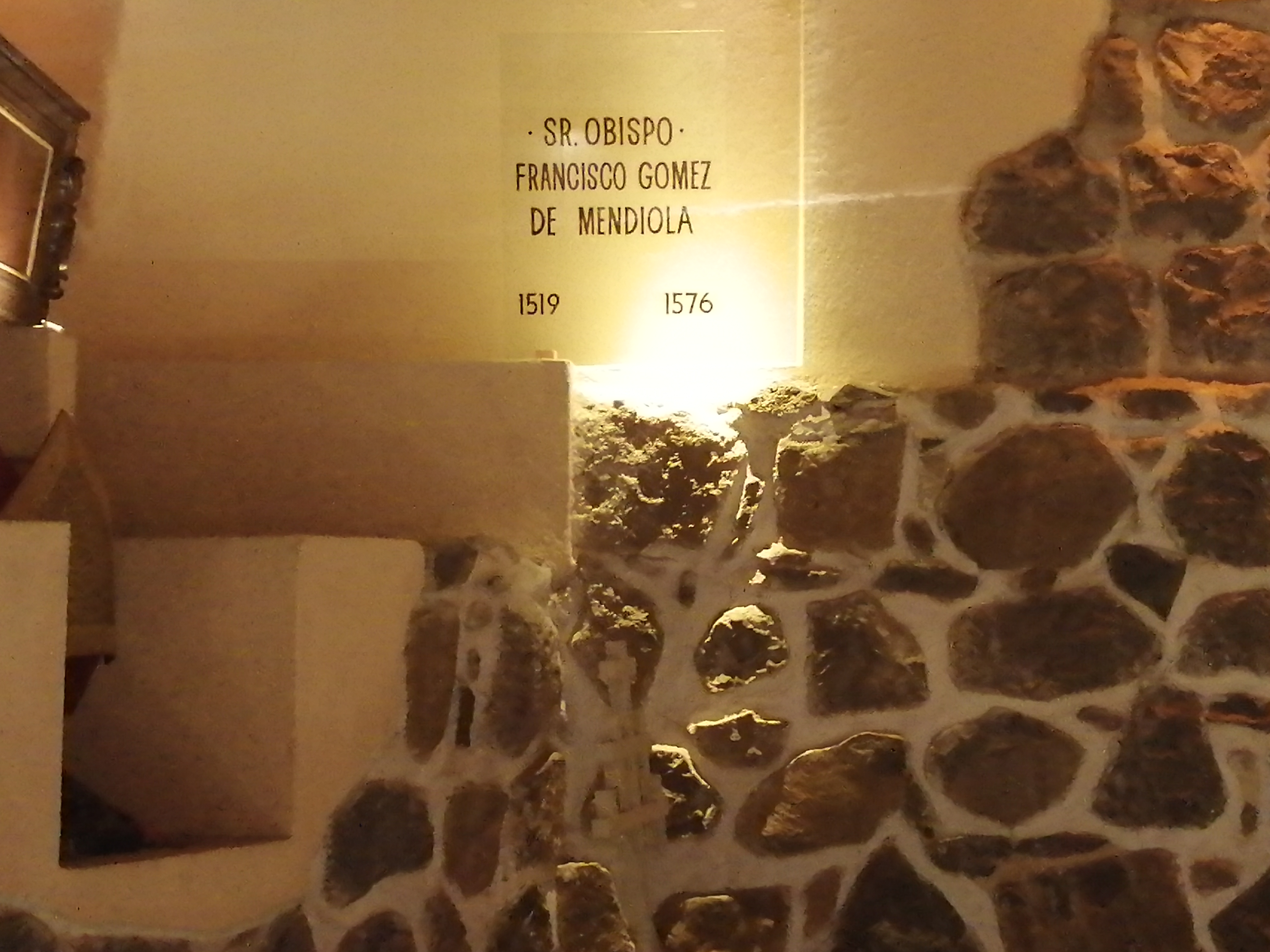 Crypt of Guadalajara Cathedral